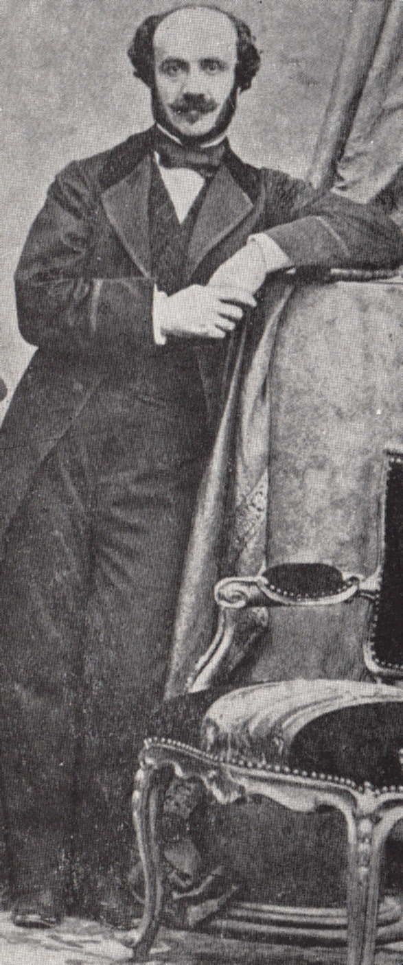 Photograph of the Romanian botanist and physician Anastasie Fătu.